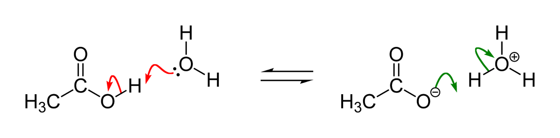 Scheme of the dissociation of acetic acid to acetate, with structural formulae and curly arrows indicating the mechanism of proton transfer. A water molecule is protonated to form a hydronium ion in the process.